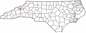 Category:North Carolina Dot Maps